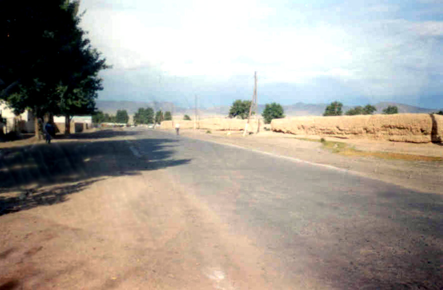 Sangiin Kerem (Сангийн хэрэм), the ruins of the fortress of the residence of the Manchu amban in city Kobdo. It was taken by storm by troops of Magsarjav, Damdinsuren and Damiijantsan in 1912.